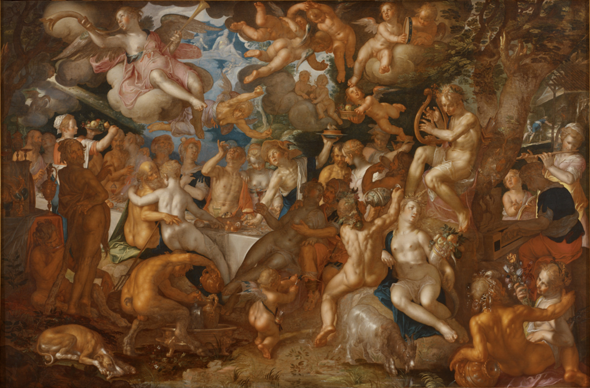 RISDM 62-058, The Wedding of Peleus and Thetis, Joachim Wtewael (1566 - 1638) 1612, oil on copper, Oil on panel 109.5 x 166.4 cm (43 1/8 x 65 1/2 inches)